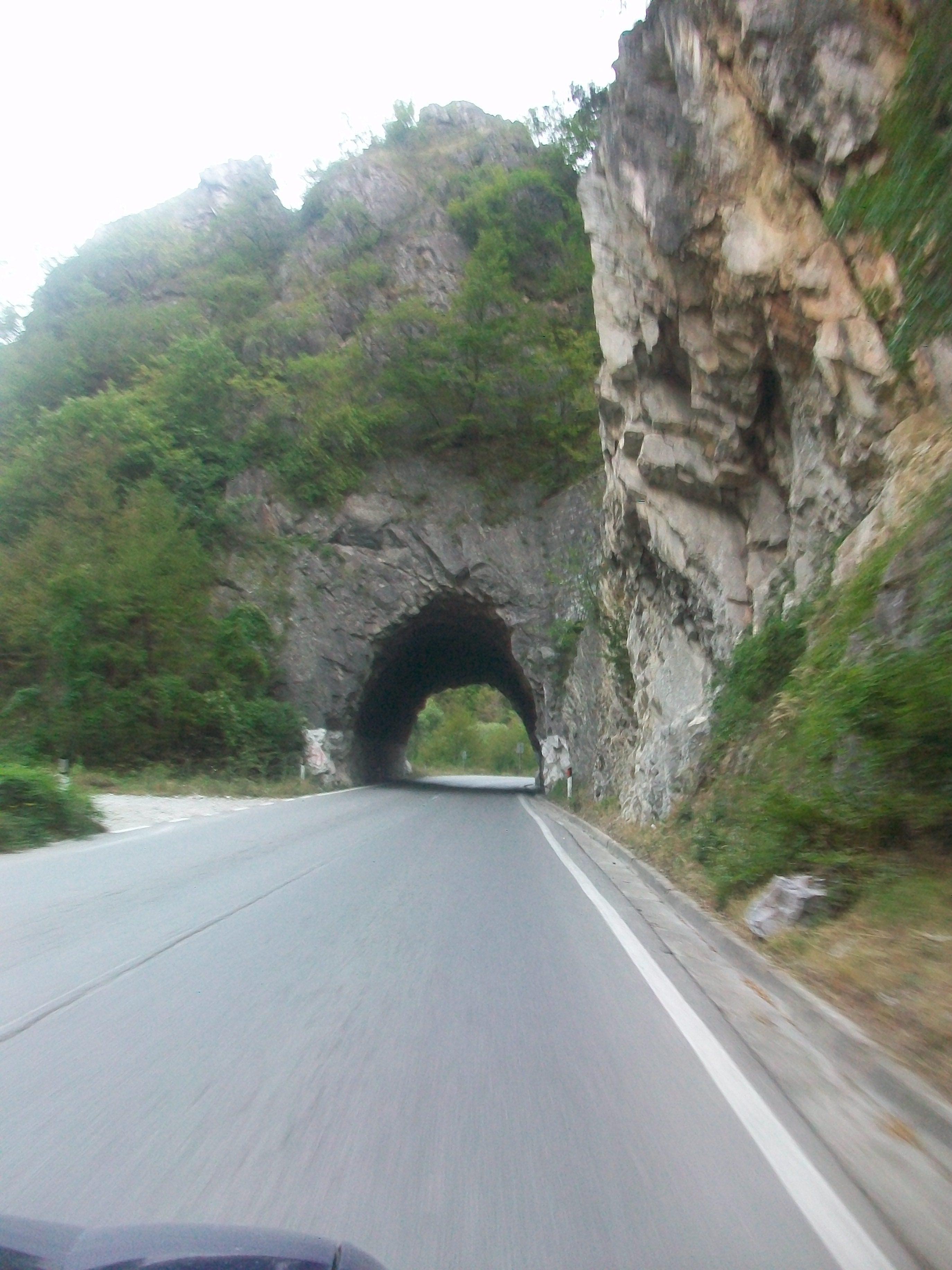 Pictures from Prizren Kosovo